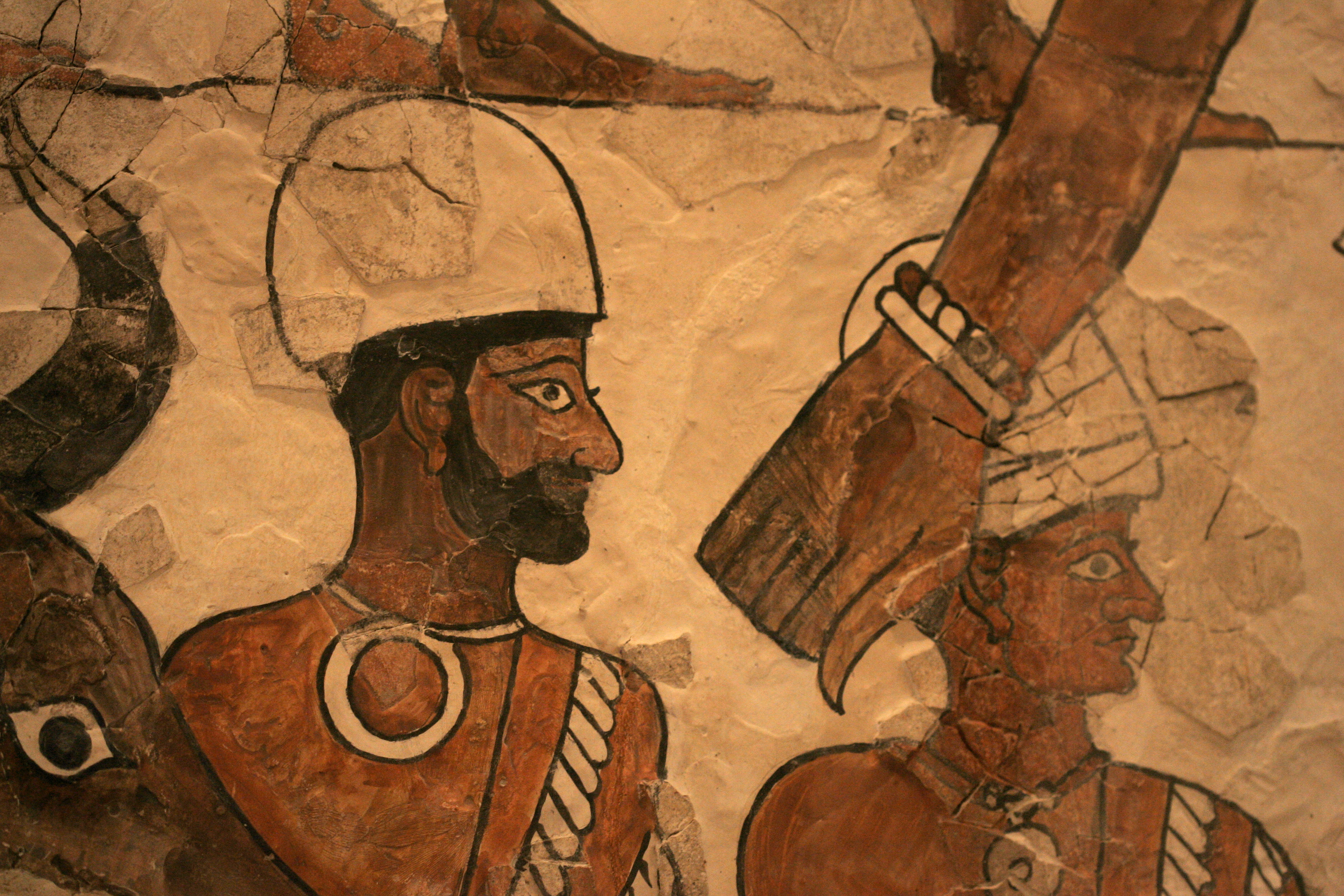 ArtistUnknownDescription Mural painting the "Sacrifice ordinator". tempera on plaster. Ca. 1780 BCE, reign of Shamshi-Adad I. Royal palace, Mari. Current location (Inventory)Louvre Museum Native nameMusée du LouvreLocationParisCoordinates48° 51′ 37″ N, 2° 20′ 15″ E Established1793Website control : Q19675 VIAF: 257711507 ISNI: 0000 0001 2260 177X ULAN: 500125189 LCCN: n80020283 NLA: 35912436 WorldCat Richelieu Ground floor Mésopotamie, IIe et Ier millénaires avant J.-C. Room 3Accession numberAO19825Credit lineFouilles A. Parrot, 1935 - 1936ReferencesLouvre.frSource/PhotographerRama Mural painting the "Sacrifice ordinator". tempera on plaster. Ca. 1780 BCE, reign of Shamshi-Adad I. Royal palace, Mari.